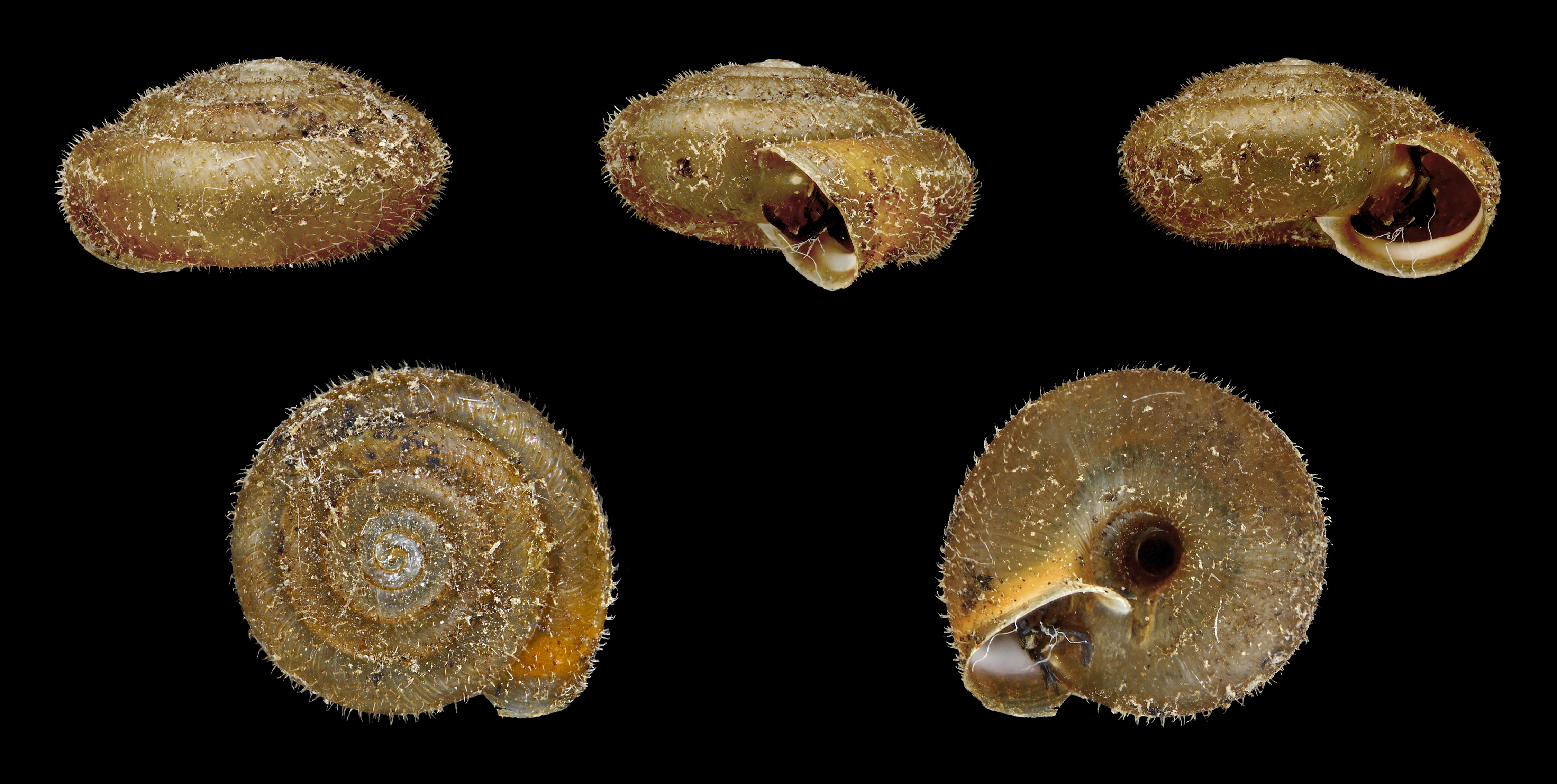 Hairy snail; Diameter 0.7 cm; Originating from Weissenhaus, Schleswig-Holstein, Germany; Shell of own collection, therefore not geocoded.